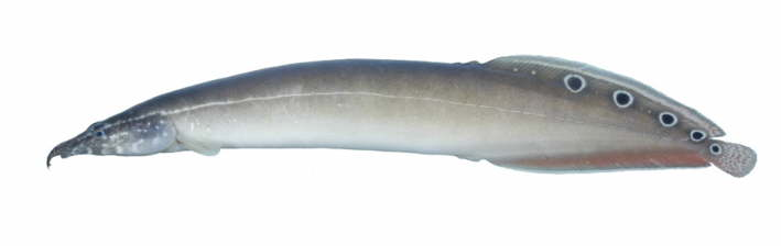 Spotfinned Spinyeel